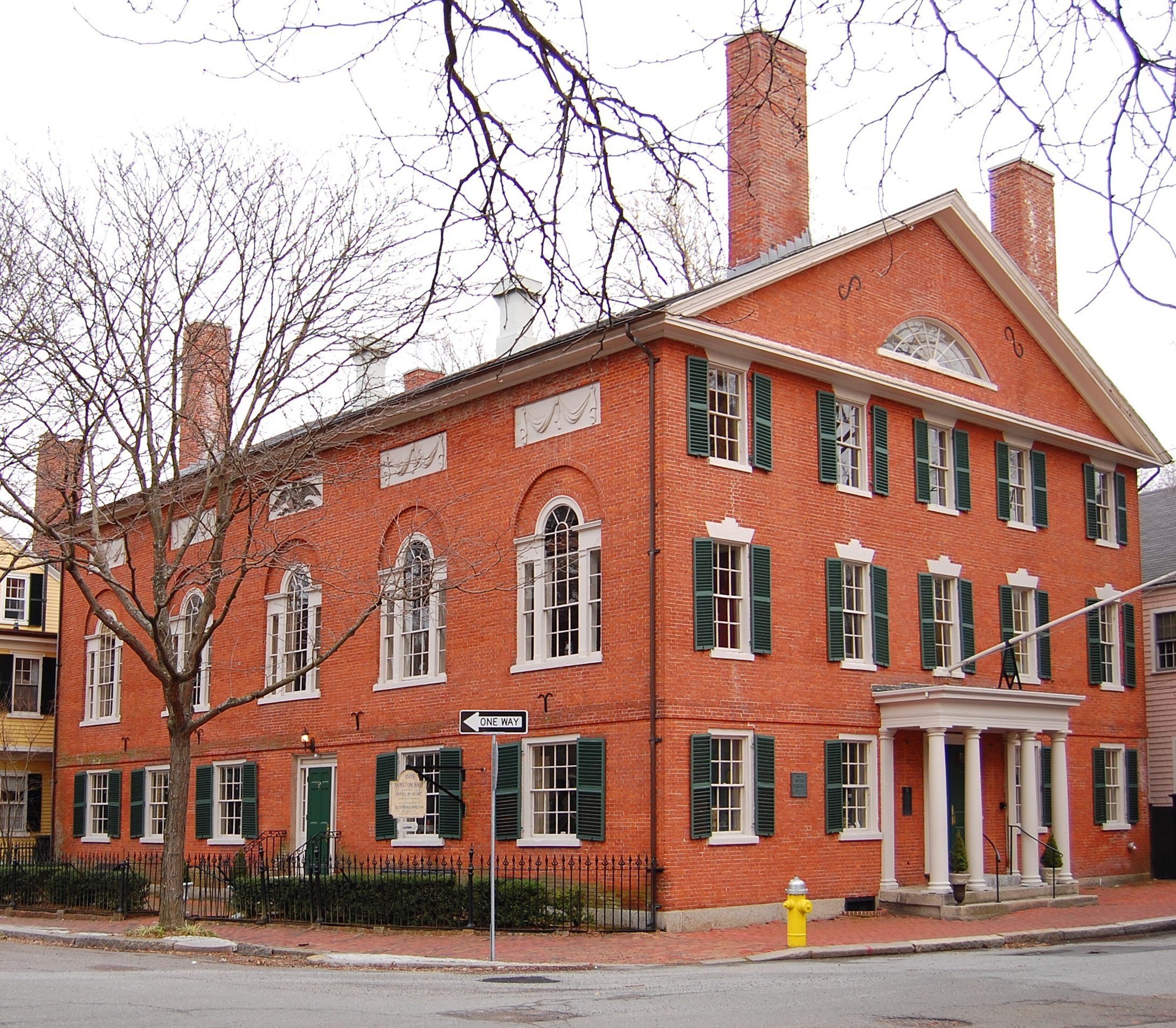 Hamilton Hall, historic building est. 1805 in Salem, Massachusetts by Samuel McIntyre was one of the earliest architects in the United States, and was one of the primary examples of Federal style architecture.